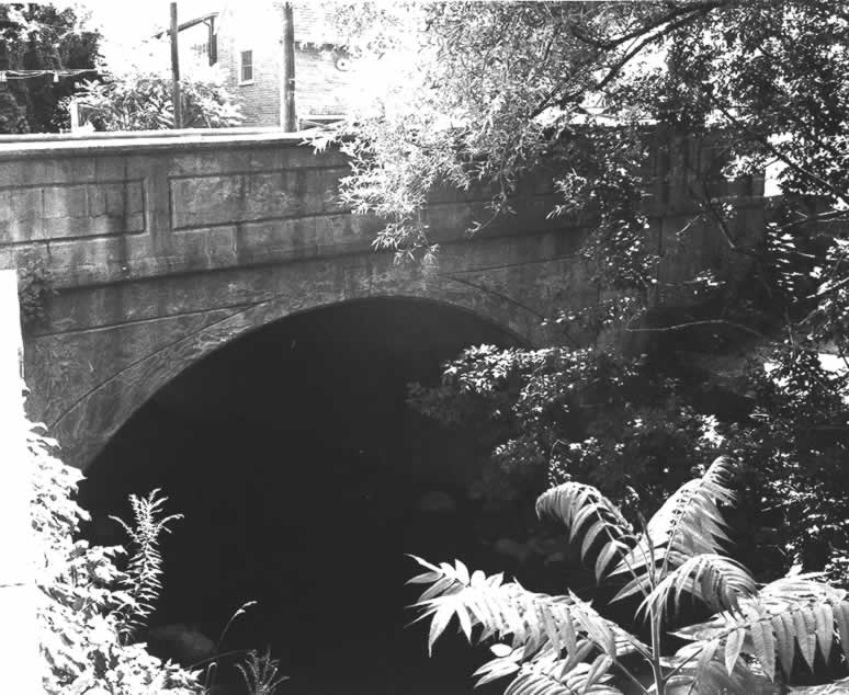 Side of the County Bridge No. 36, which carries Township Road 611 over Jacoby Creek in Portland, Pennsylvania, United States. Built in 1907, this concrete arch bridge is listed on the National Register of Historic Places.